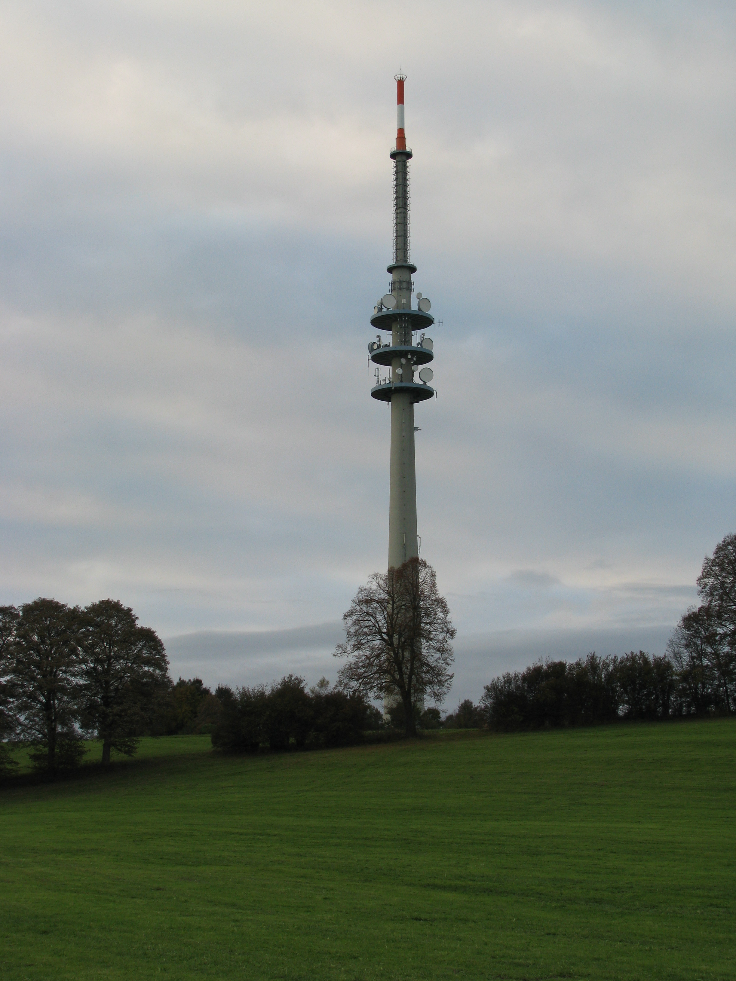 tv tower hohenpeissenberg